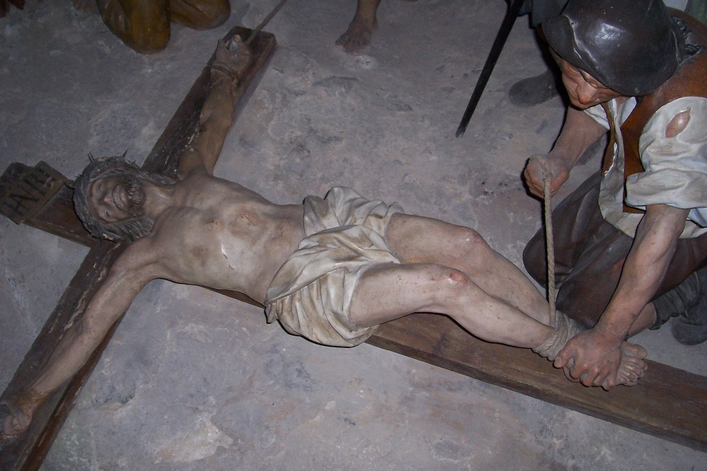 Station XI - Jesus is nailed to the cross. Sanctuary of Via Crucis, Cerveno, Val Camonica, Italy